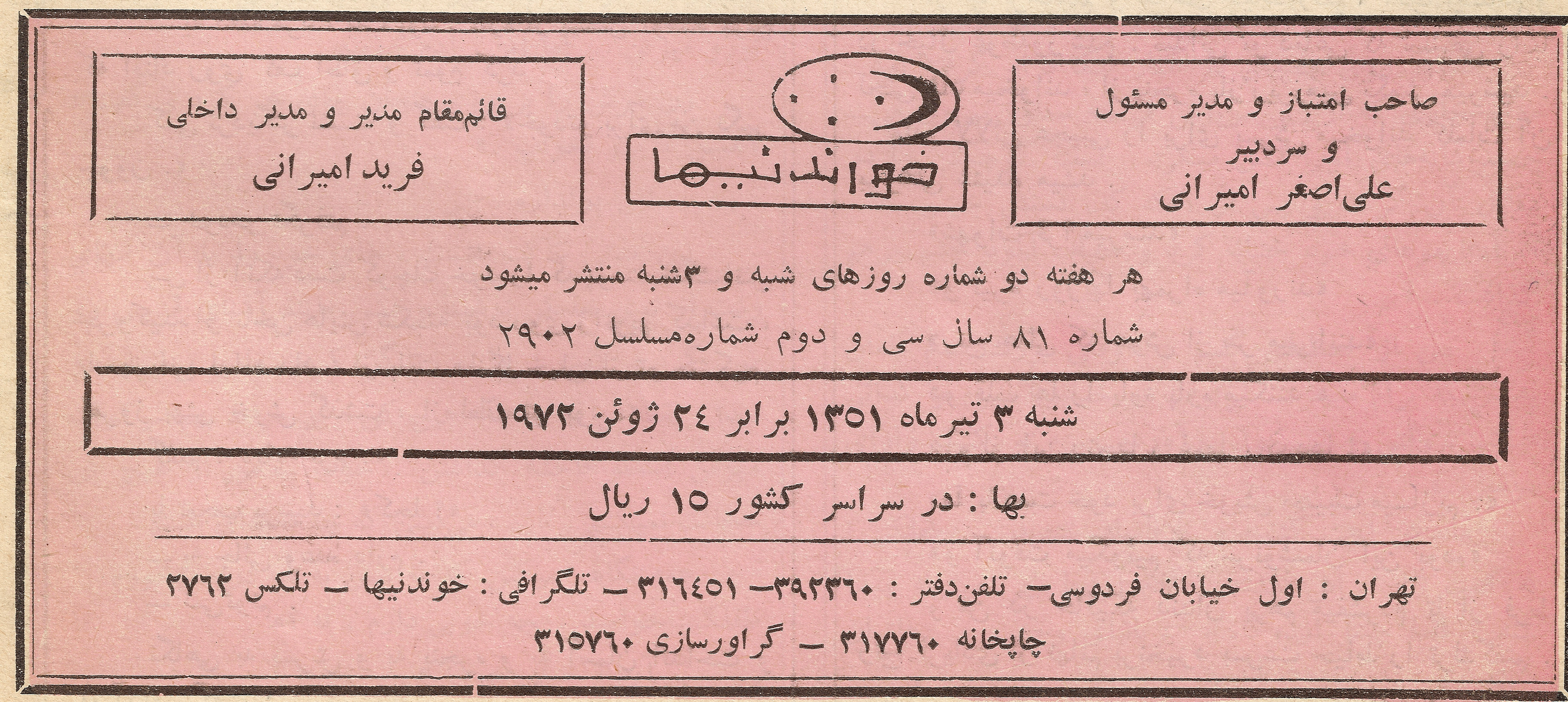 Khandaniha Magazine's front page. This volume of magazine was published on Saturday, June 24, 1972